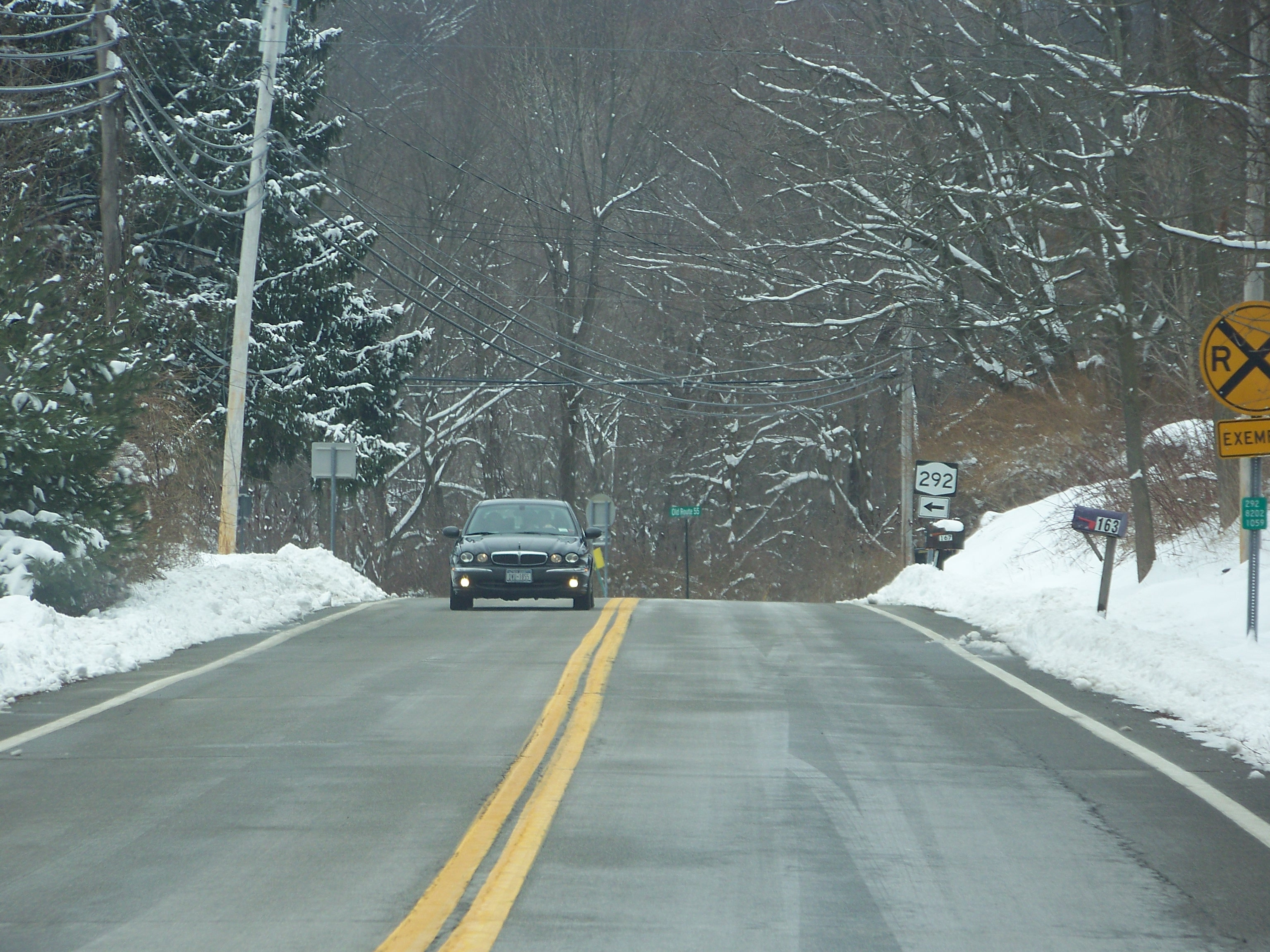 Image of New York State Route 292